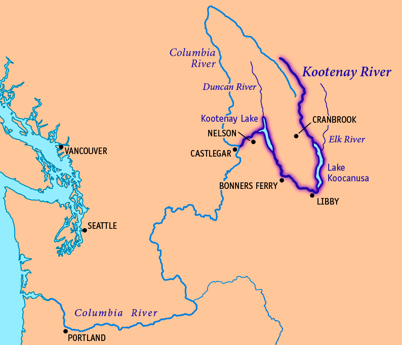 This is a map of the Kootenay River — of the Northwest Plateau.